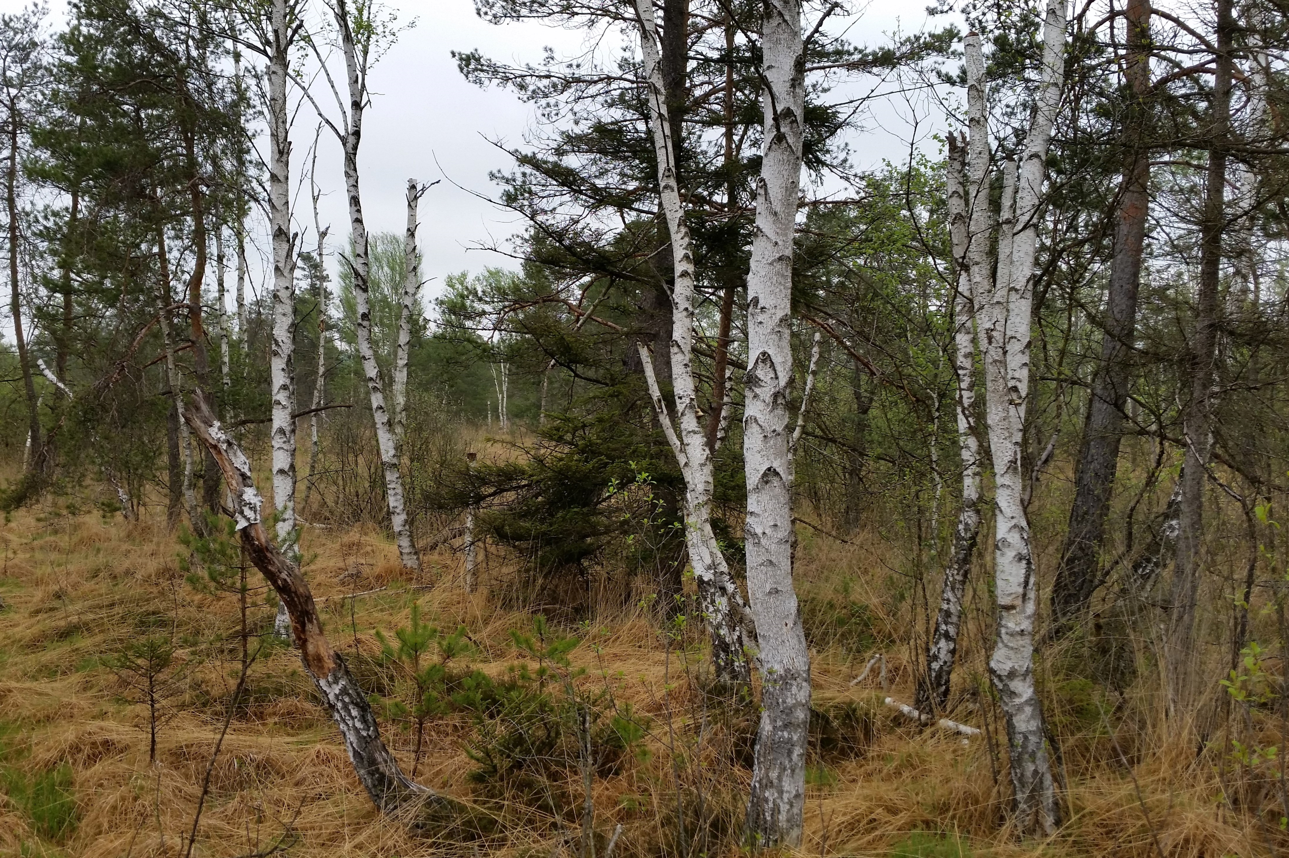 This media shows the nature reserve in Upper Austria with the ID n123.